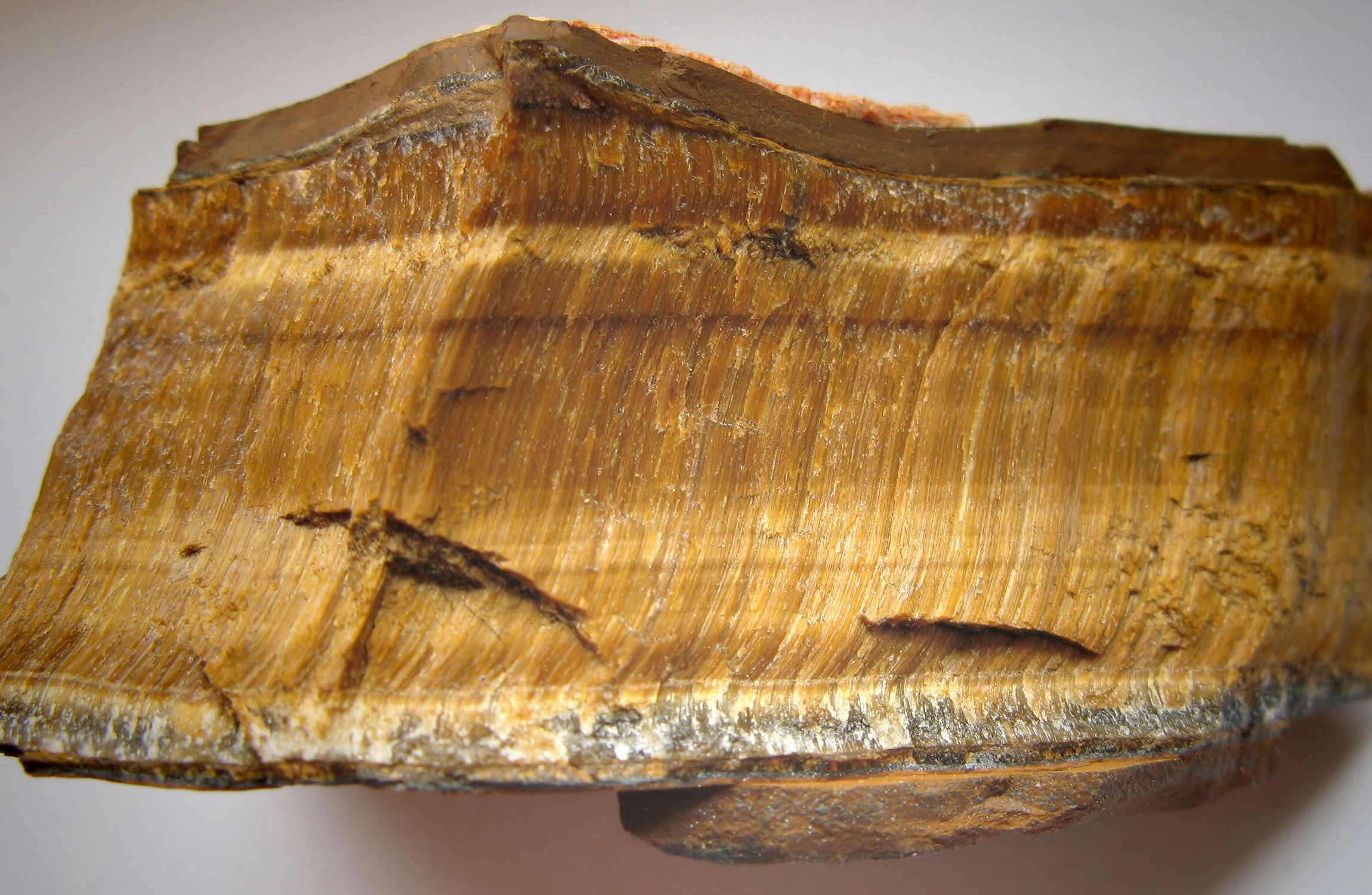 Quartz - Tigers-Eye, raw stone from Southafrica